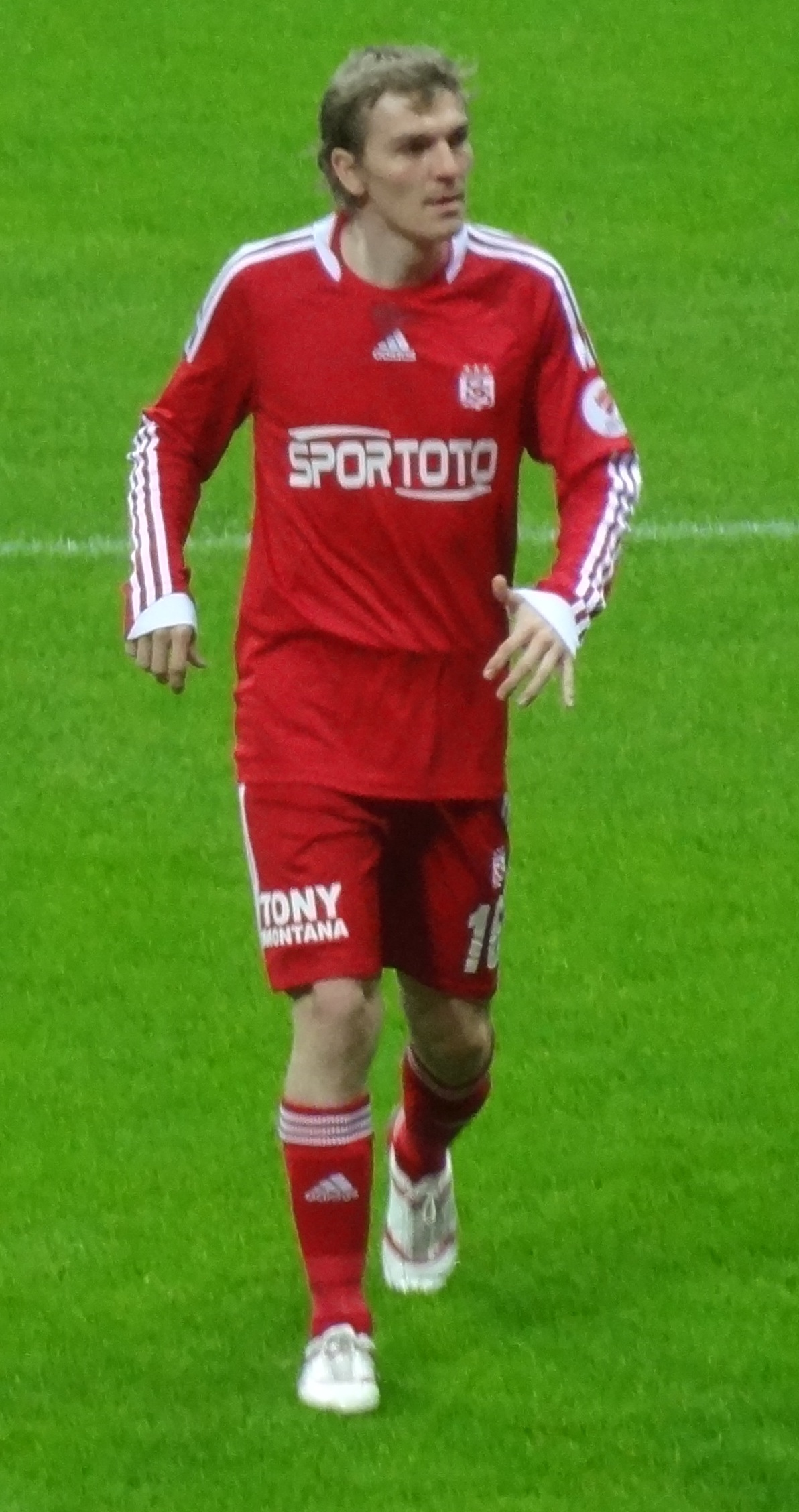 Cerny sivas